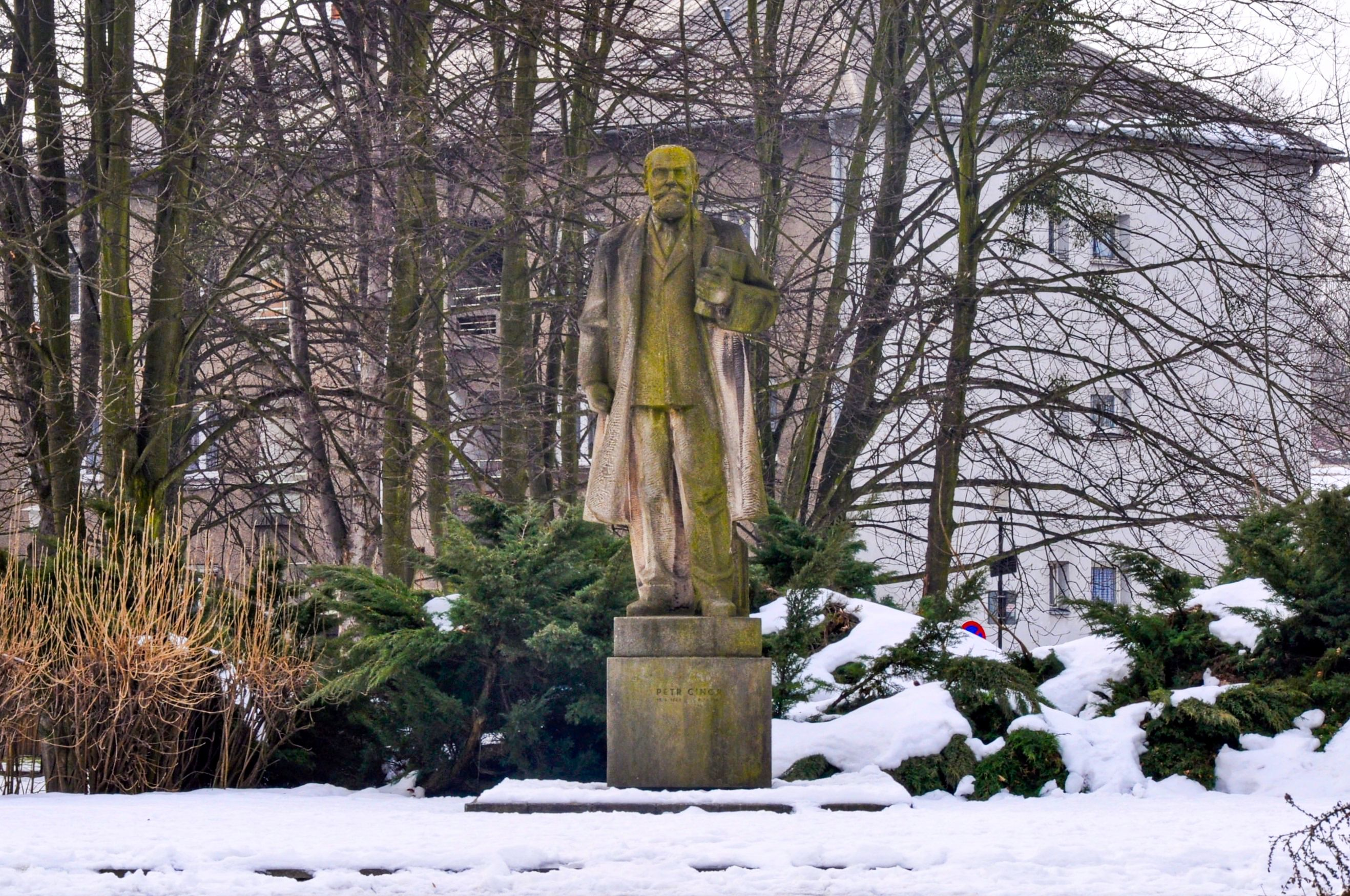 The statue of Petr Cingr on the Michal's Square, Ostrava-Michalkovice